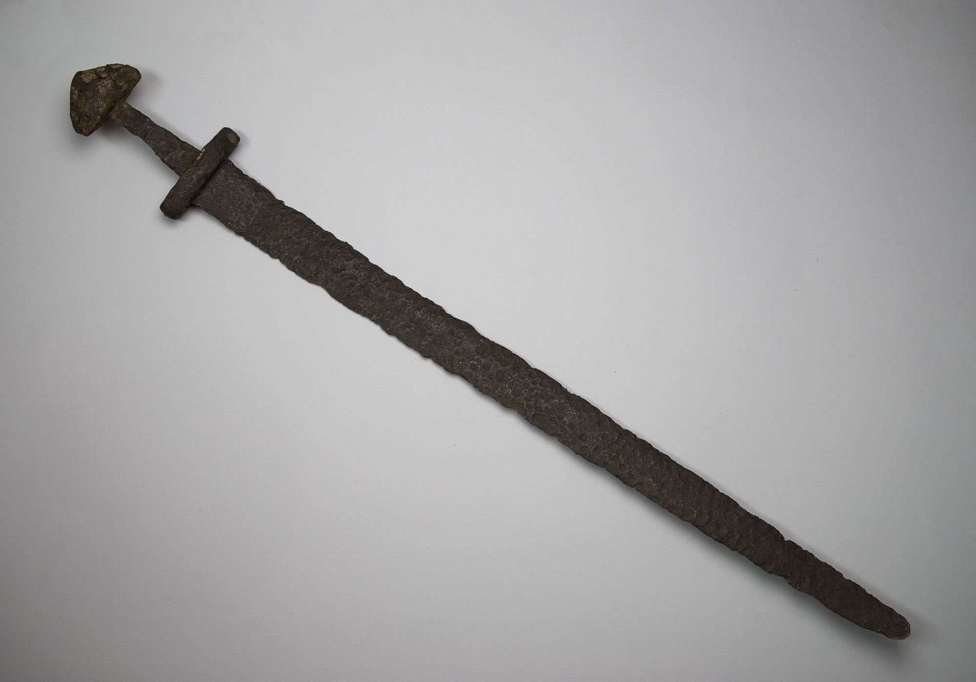 Double-edged iron sword from a grave north of the Fort in Birka, Sweden